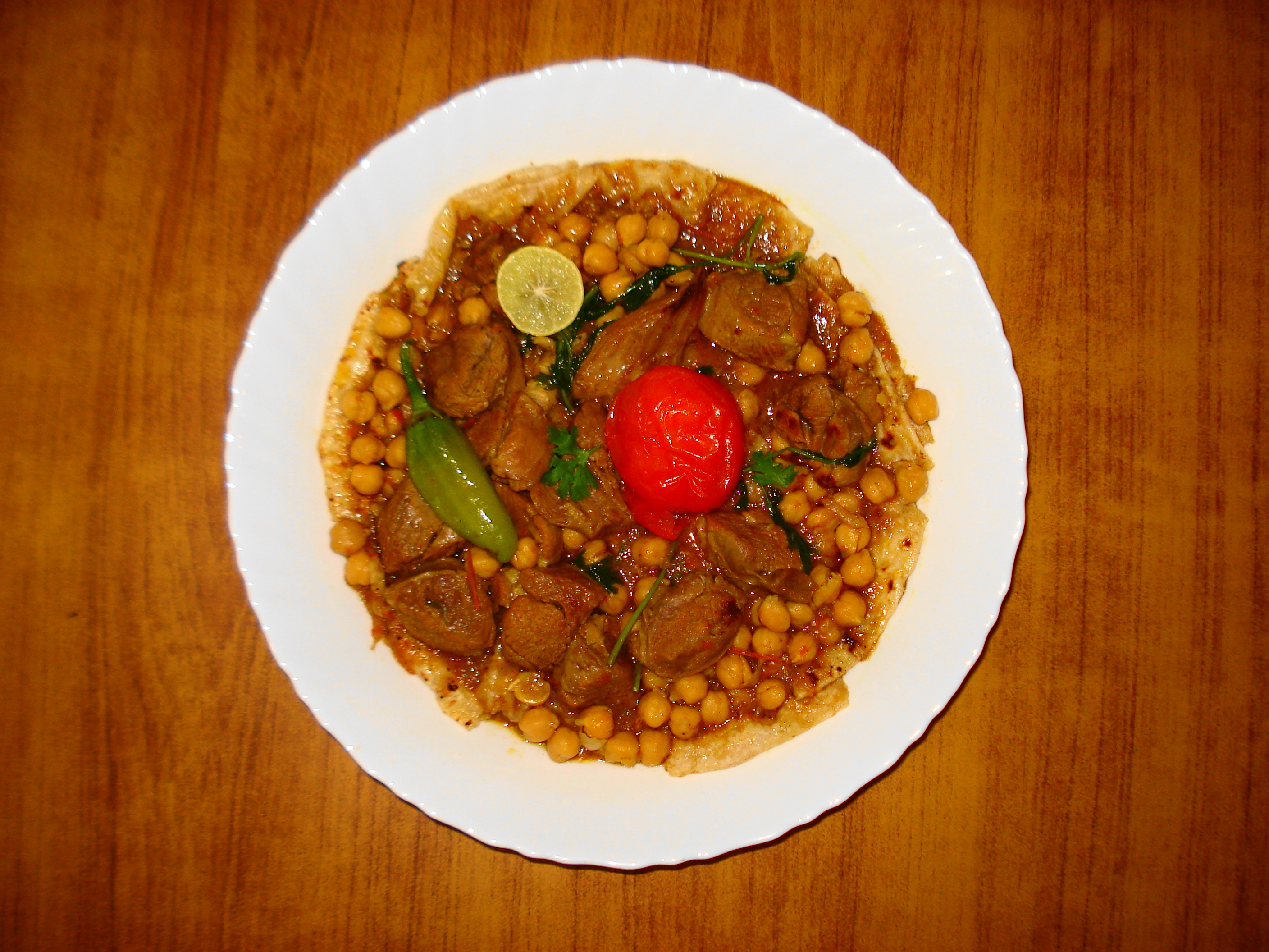 Sareed